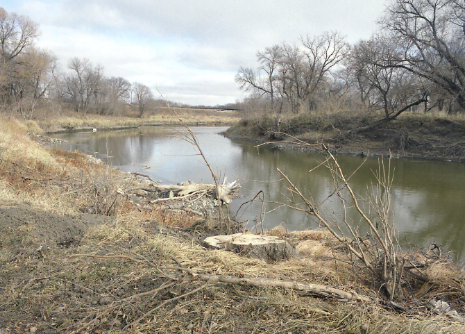 The Red River of the North in Fargo-Moorhead, as viewed from the Fargo side of the river.